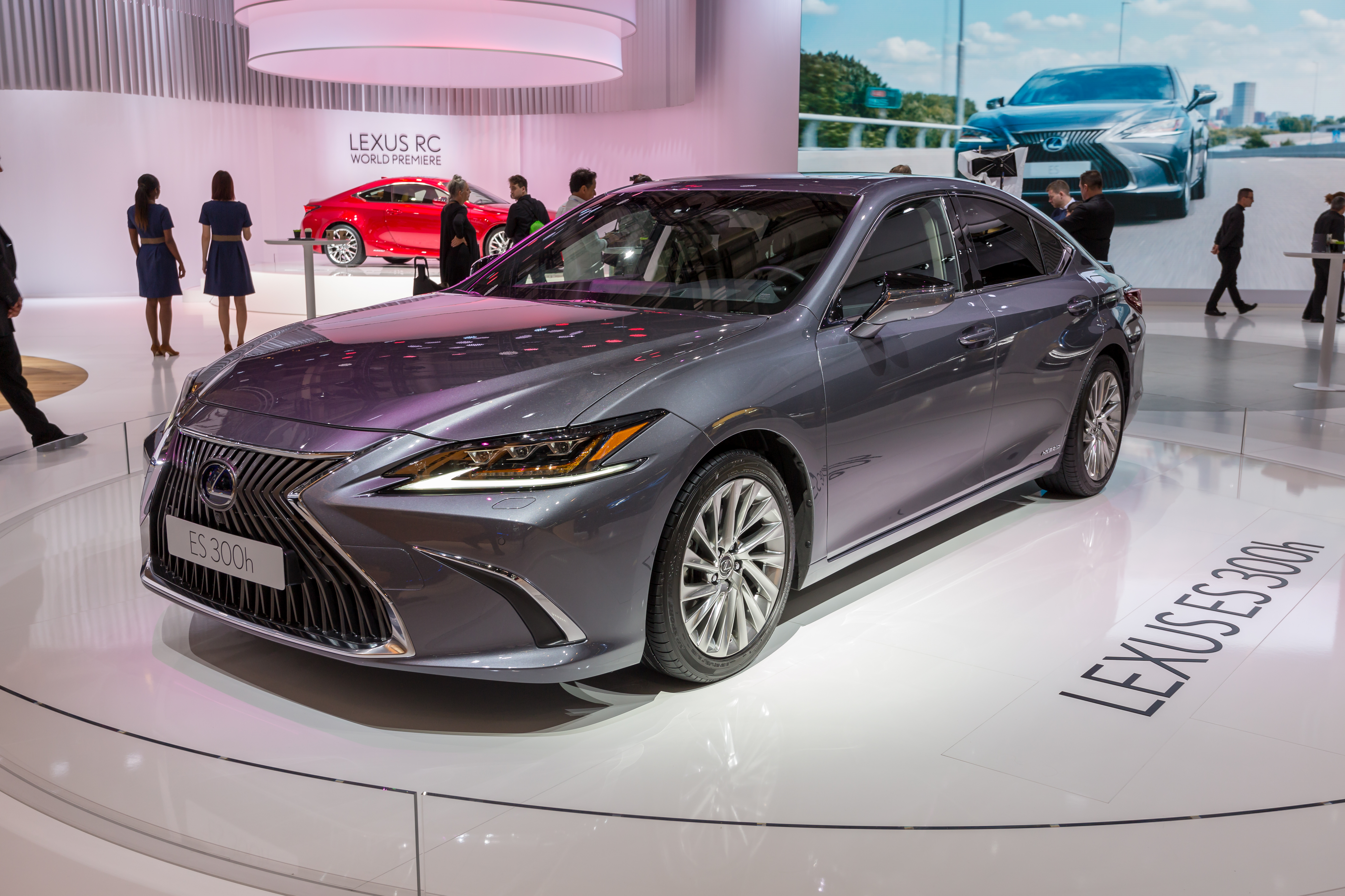 Lexus ES 300h, Press days at Mondial Paris Motor Show 2018